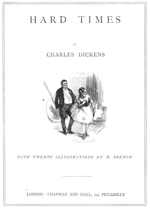 Title page vignette Ringmaster Sleary and His Daughter, Josephine, Costumed as a Horse-Rider] Harry French